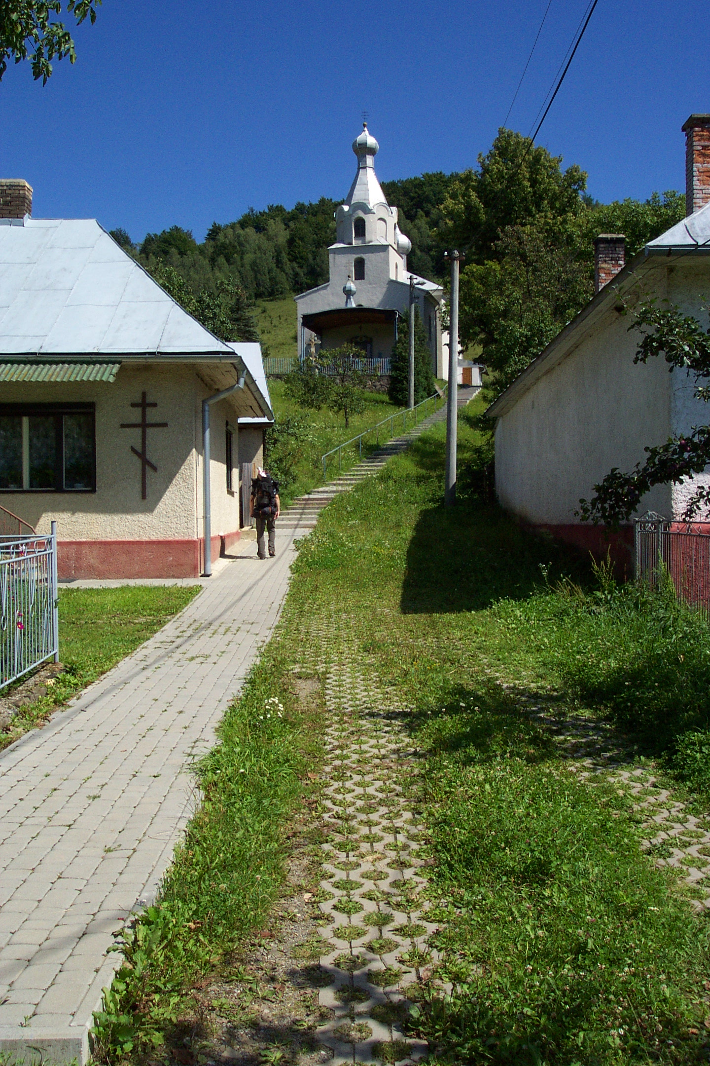 The orthodox church of "Voznesenija Hospodinovho", Osadné, Snina District, Slovakia. Side wiev. The house of the priest (left).